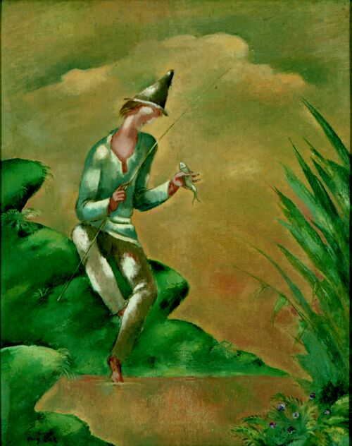 Fisher by Eugeniusz Zak (15 December 1884 Mogilno, Belarus – 15 January 1926 Paris), a Belarusian artist.